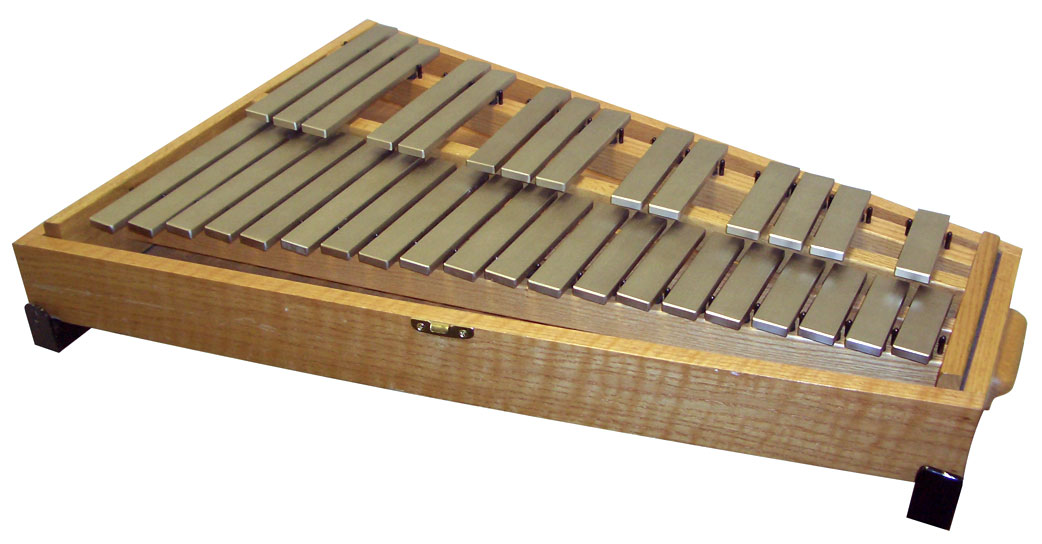 Photograph of a modern glockenspiel.